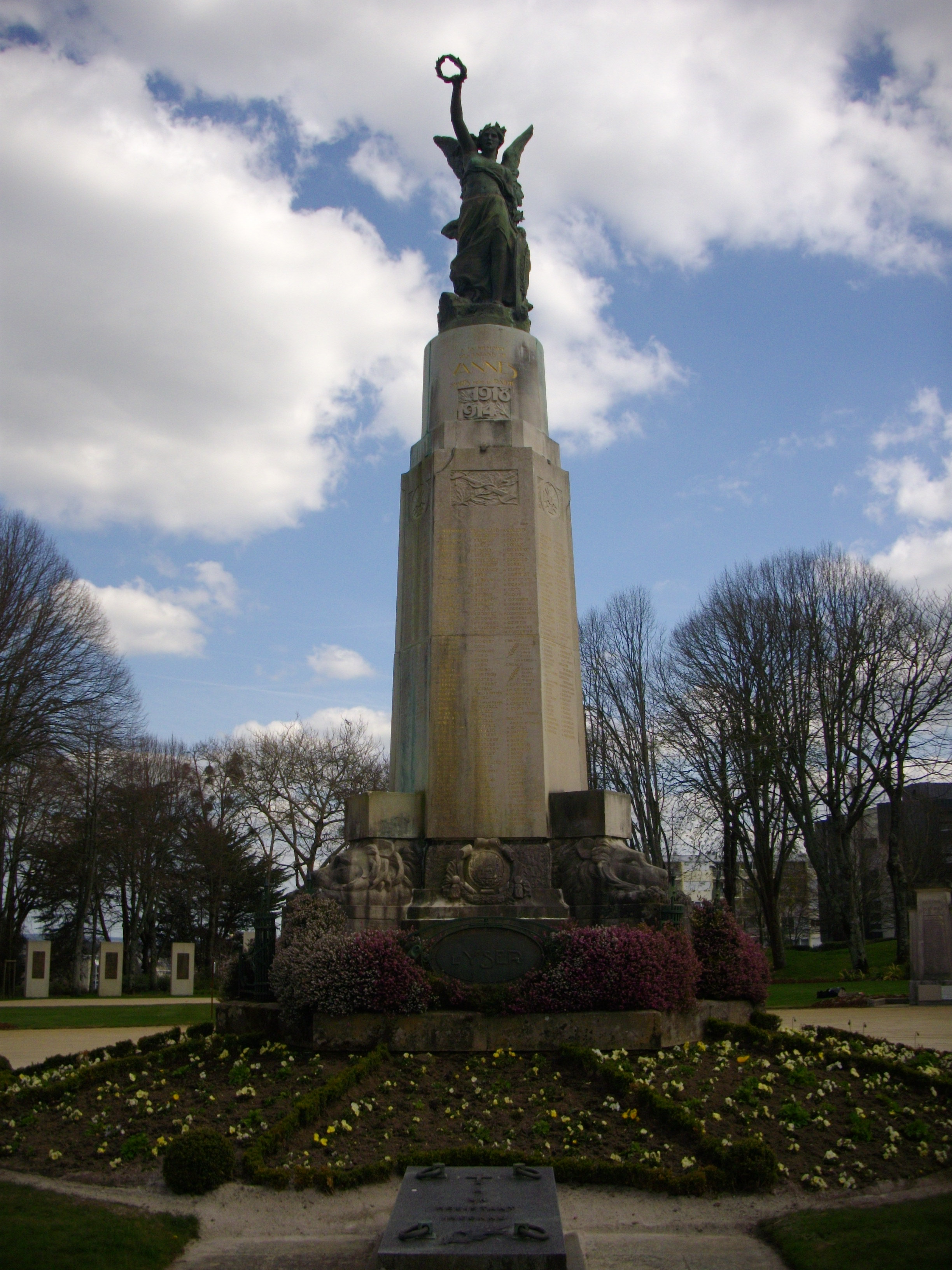 War memorial of Vannes (Morbihan, France)